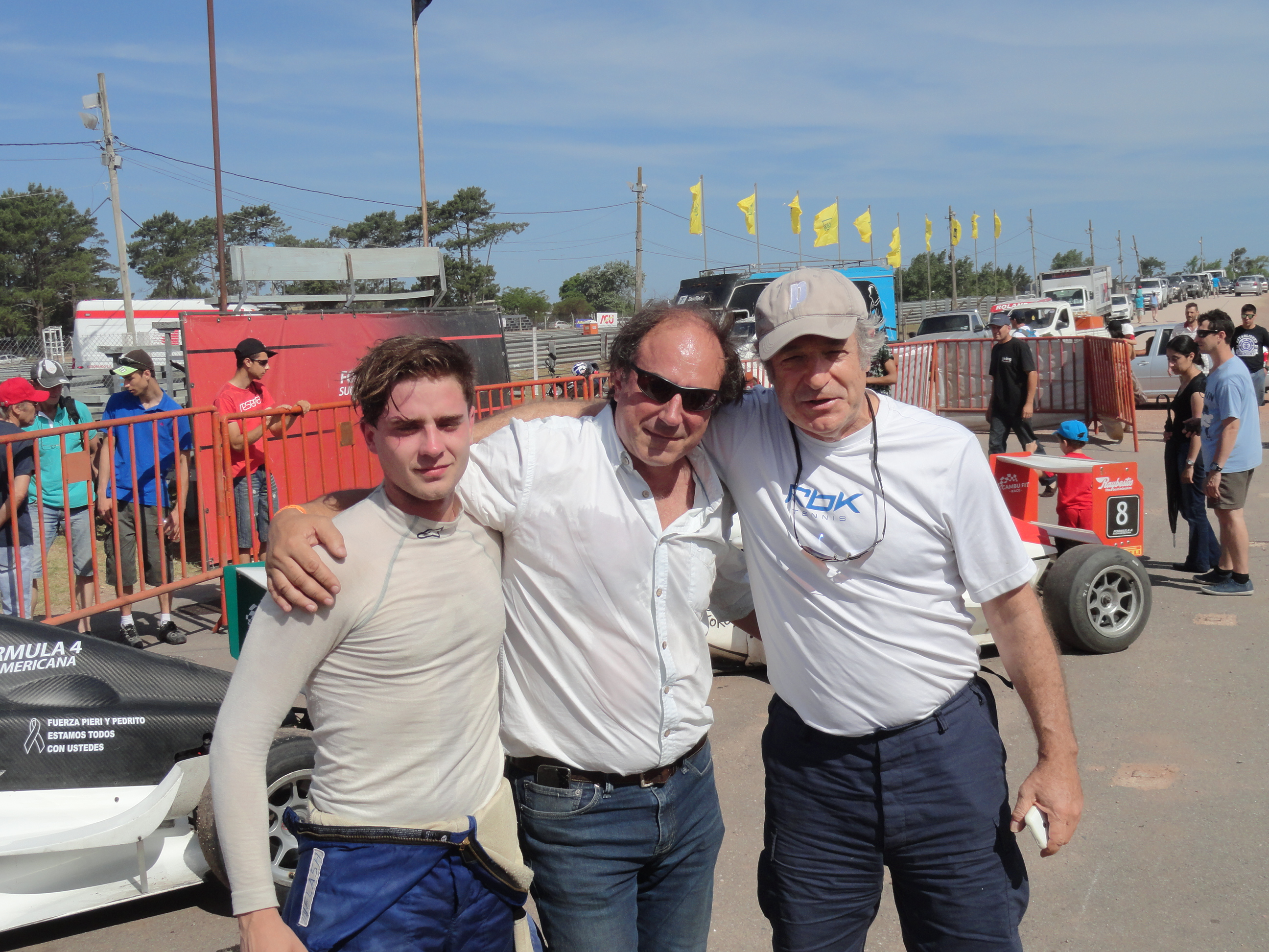 Uruguayan driver Facundo Garese (left), 2016 South American Formula 4 champion in the paddock at the 2016 Gran Premio Coronación AUVO at the Autódromo Víctor Borrat Fabini de El Pinar.